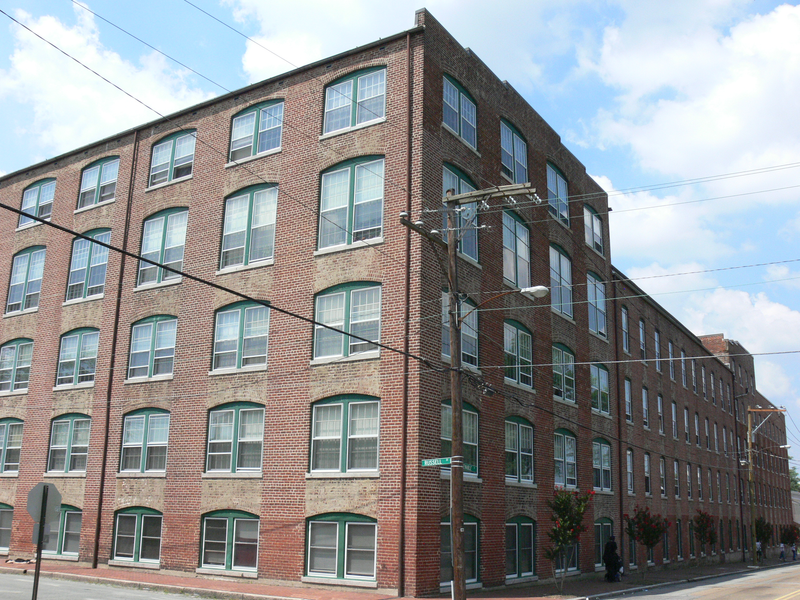 The former Hasker and Marcuse Factory building in the Union Hill neighborhood of Richmond, Virginia; on the National Register of Historic Places